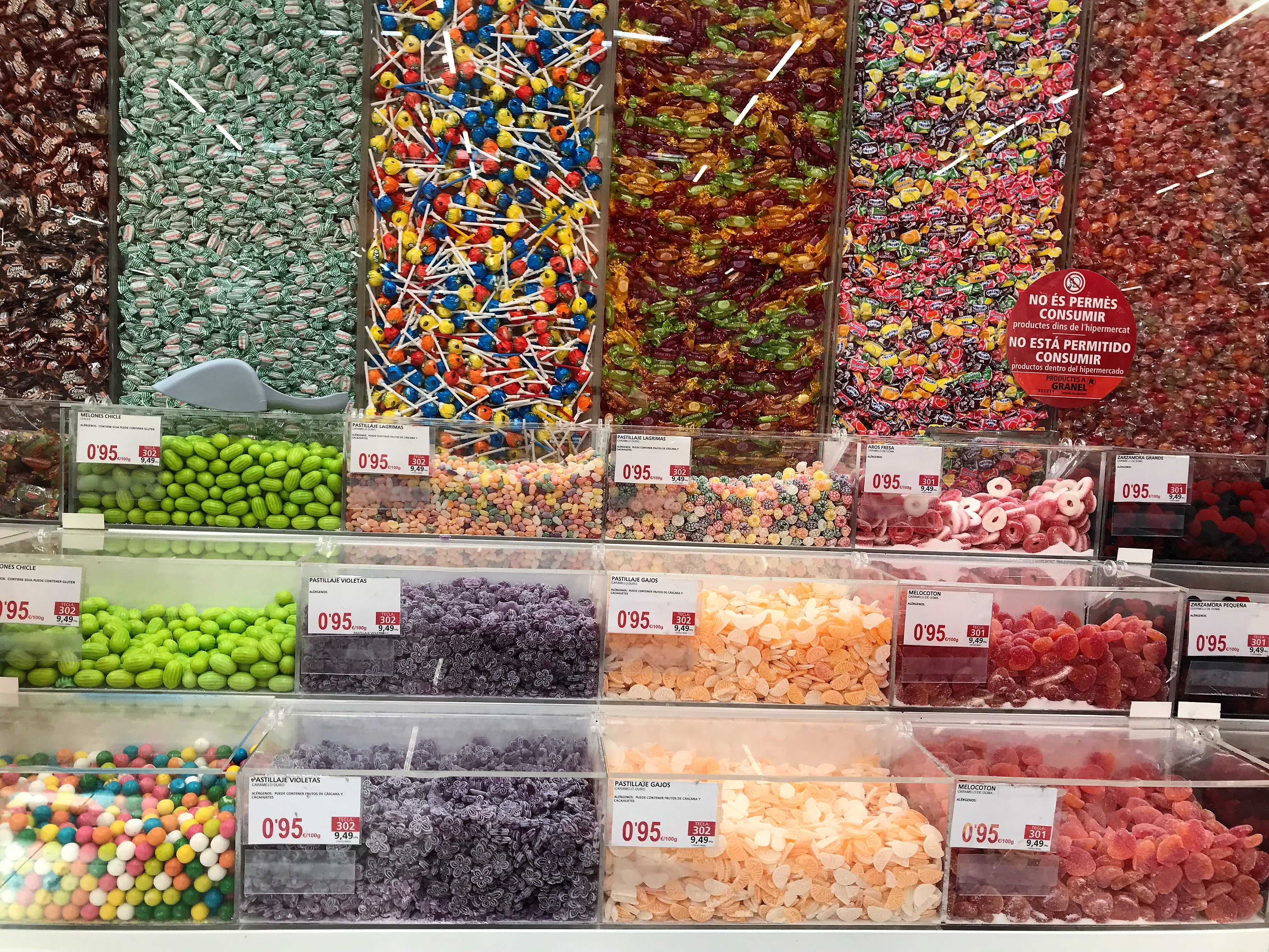 Candies and Confectionery